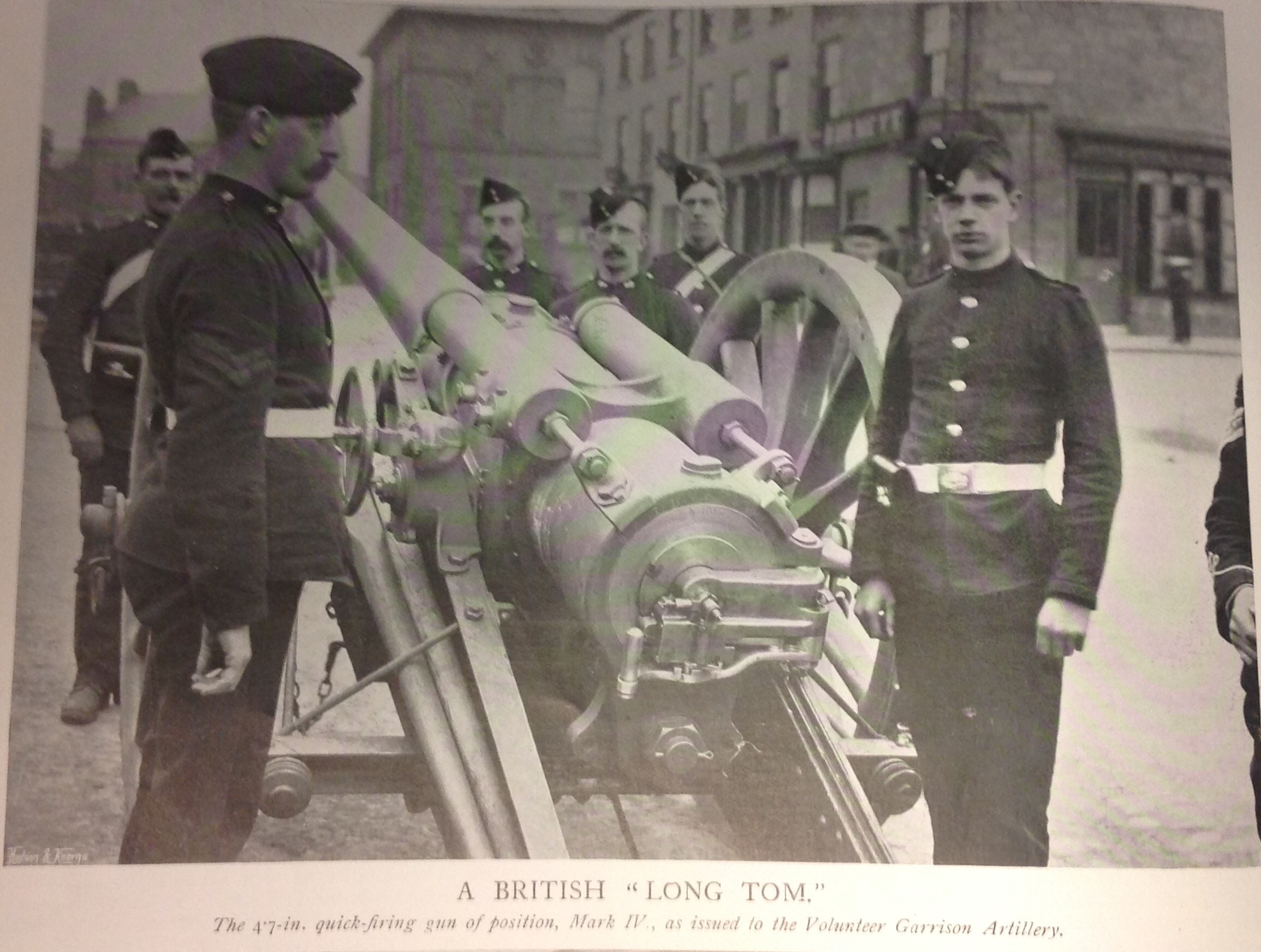 4.7-inch QF gun of the 1st West Yorkshire Royal Garrison Artillery (Volunteers), published in the Navy and Army Illustrated, published 1st November 1902